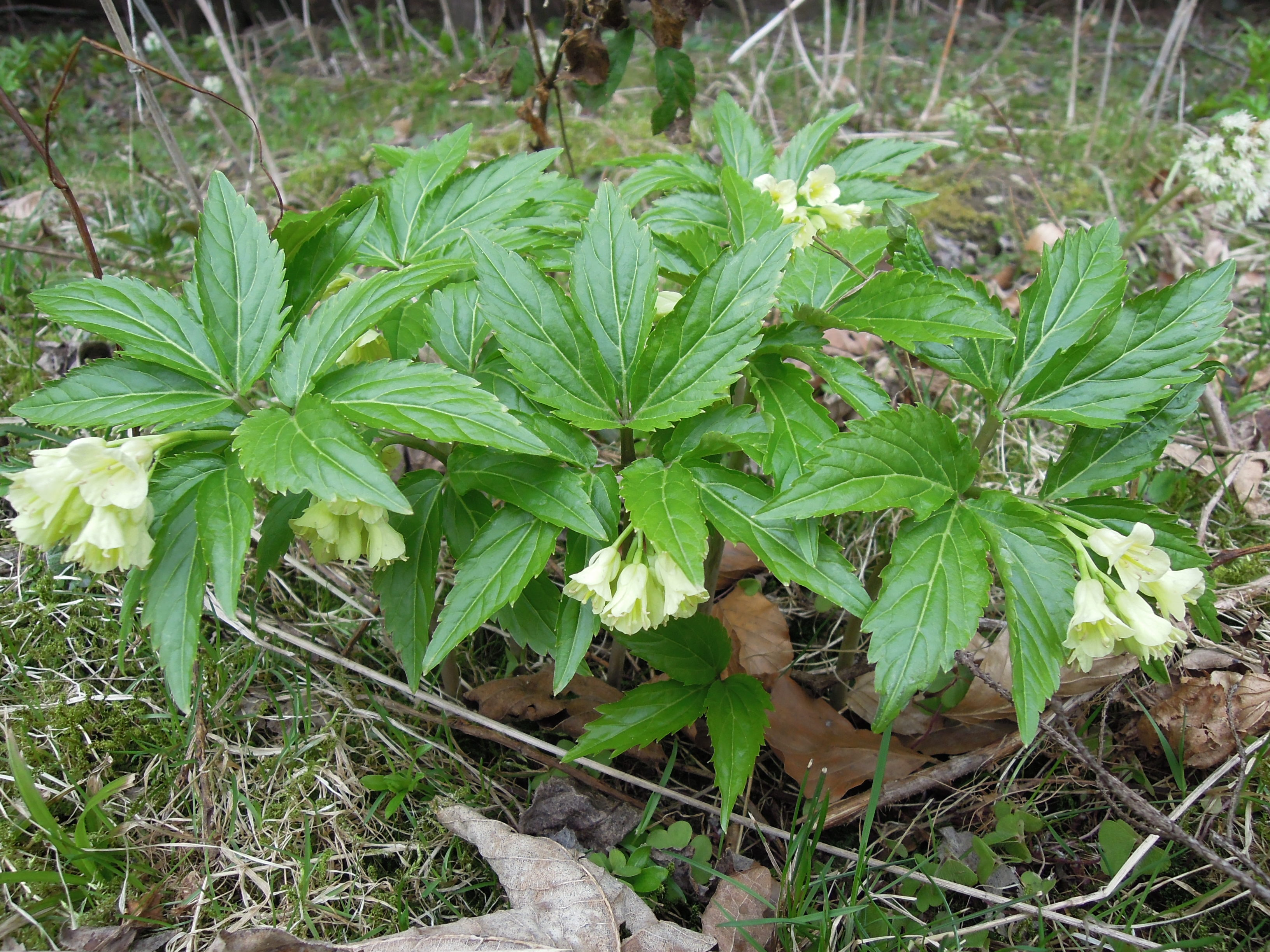 Pivovařiska natural monument in Hošťálková, Vsetín District, Zlín Region, Czech Republic